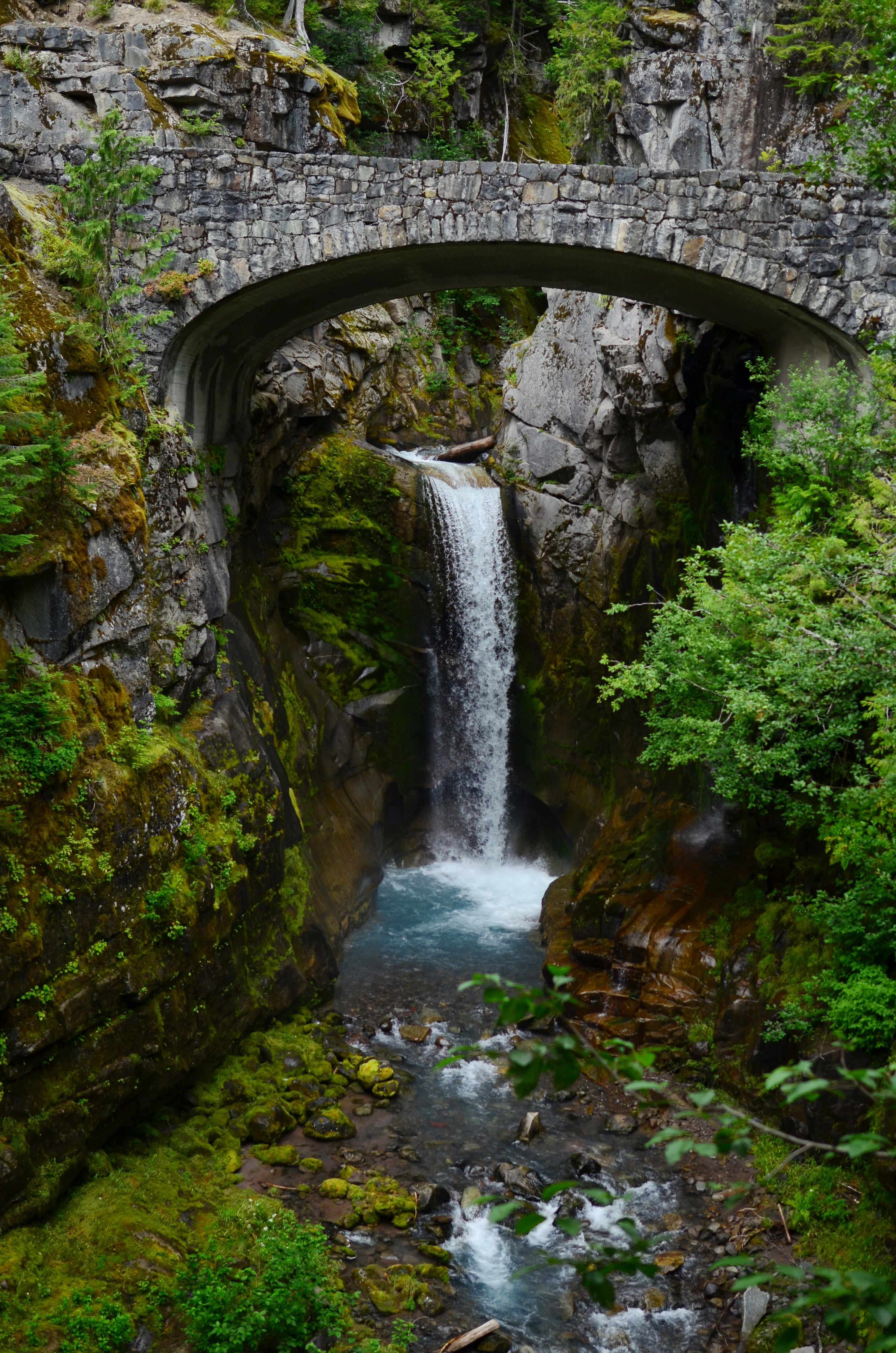 Christine Falls Bridge (and Falls), Mount Rainier National Park, Washington, U.S.